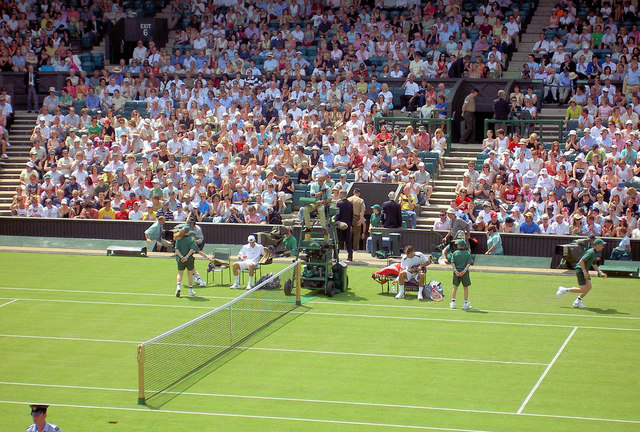 Men's singles opening match with Federer.